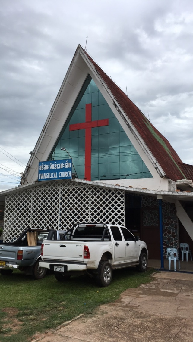 Naxai (Naxay) Church, Vientiane, Laos ລາວ: ໂບດ ນາໄຊ, ນະຄອນຫຼວງວຽງຈັນ, ປະເທດລາວ